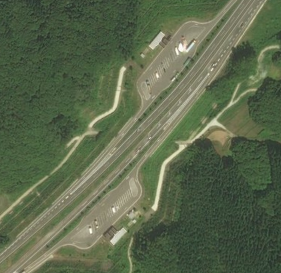 Satellite view